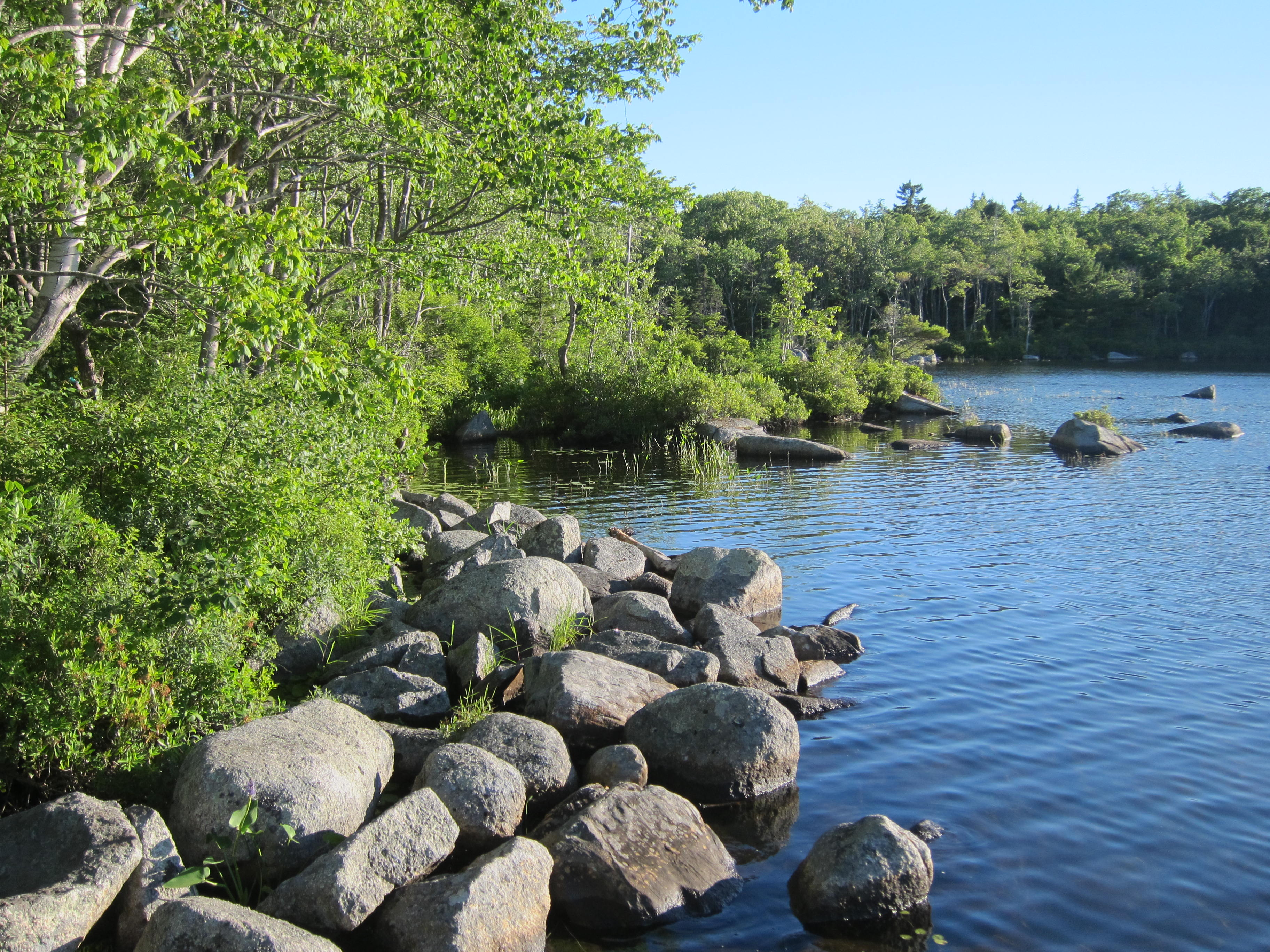 Southern shore of Witherod Lake, Long Lake Provincial Park, Halifax, Nova Scotia, Canada.